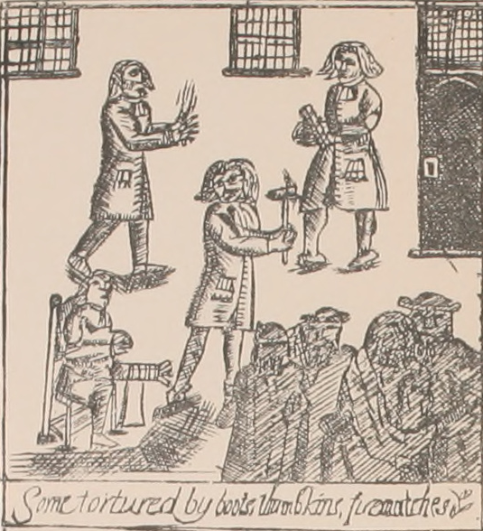 Some tortured by boots, thumbkins, firematches